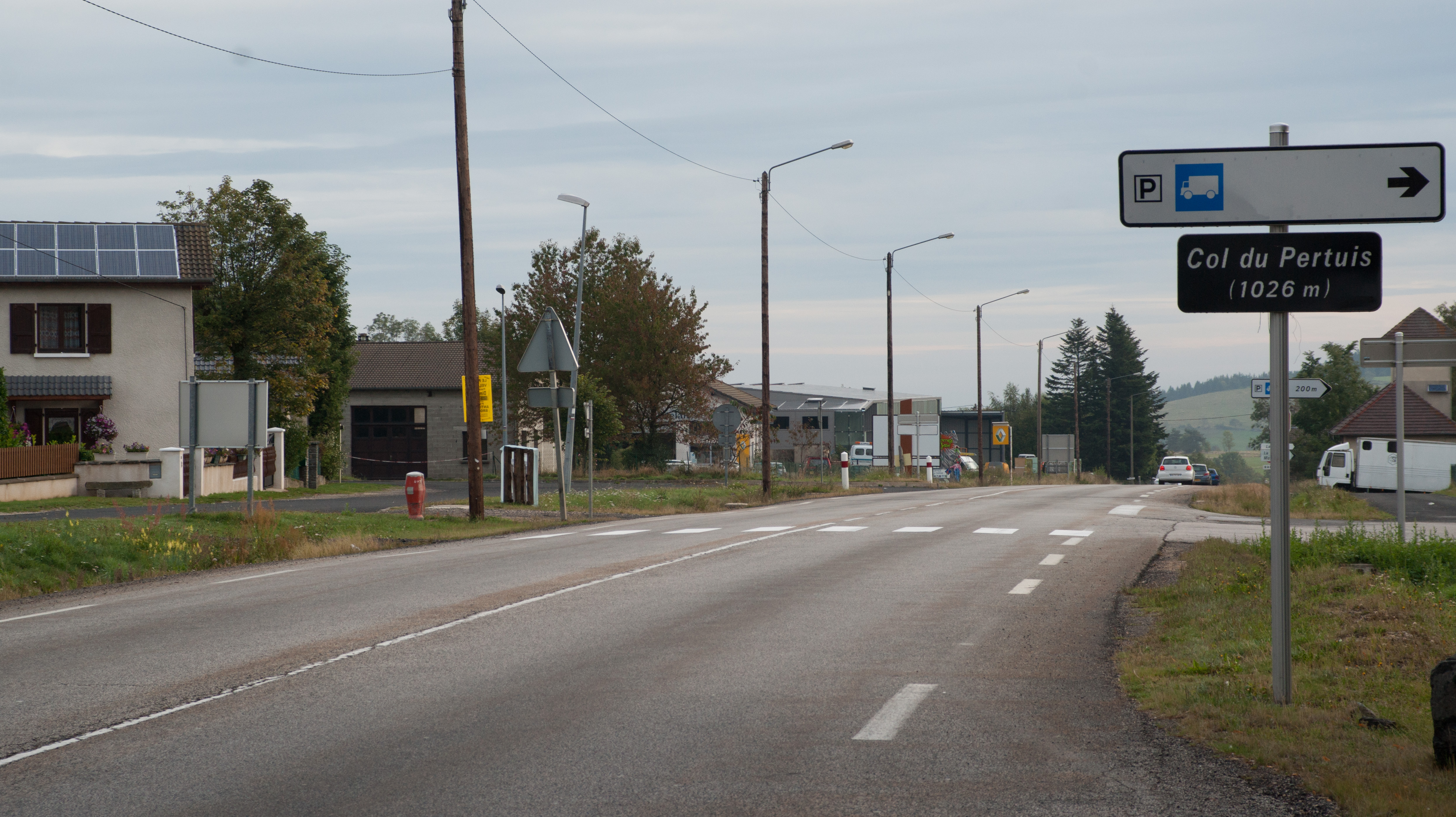 Col du Pertuis, Haute-Loire, France.